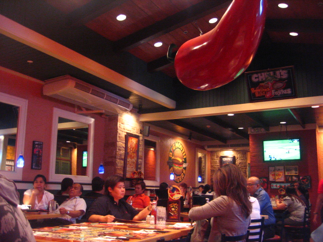 Chili's Restaurant at Rockwell Mall, Makati City, Philippines